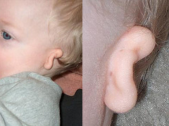 Detail of MICROTIA (outer ear deformity). Subject is photographer's son Gage, age 8 months at time of photo. Gage exhibits a Level-III microtia (the most common) on his left side, with no ear canal visible from external. Testing has proven aural nerve intact, meaning he can hear on this side. Further testing will be done at a later age to determine surgery possibilities. Right ear is normal.